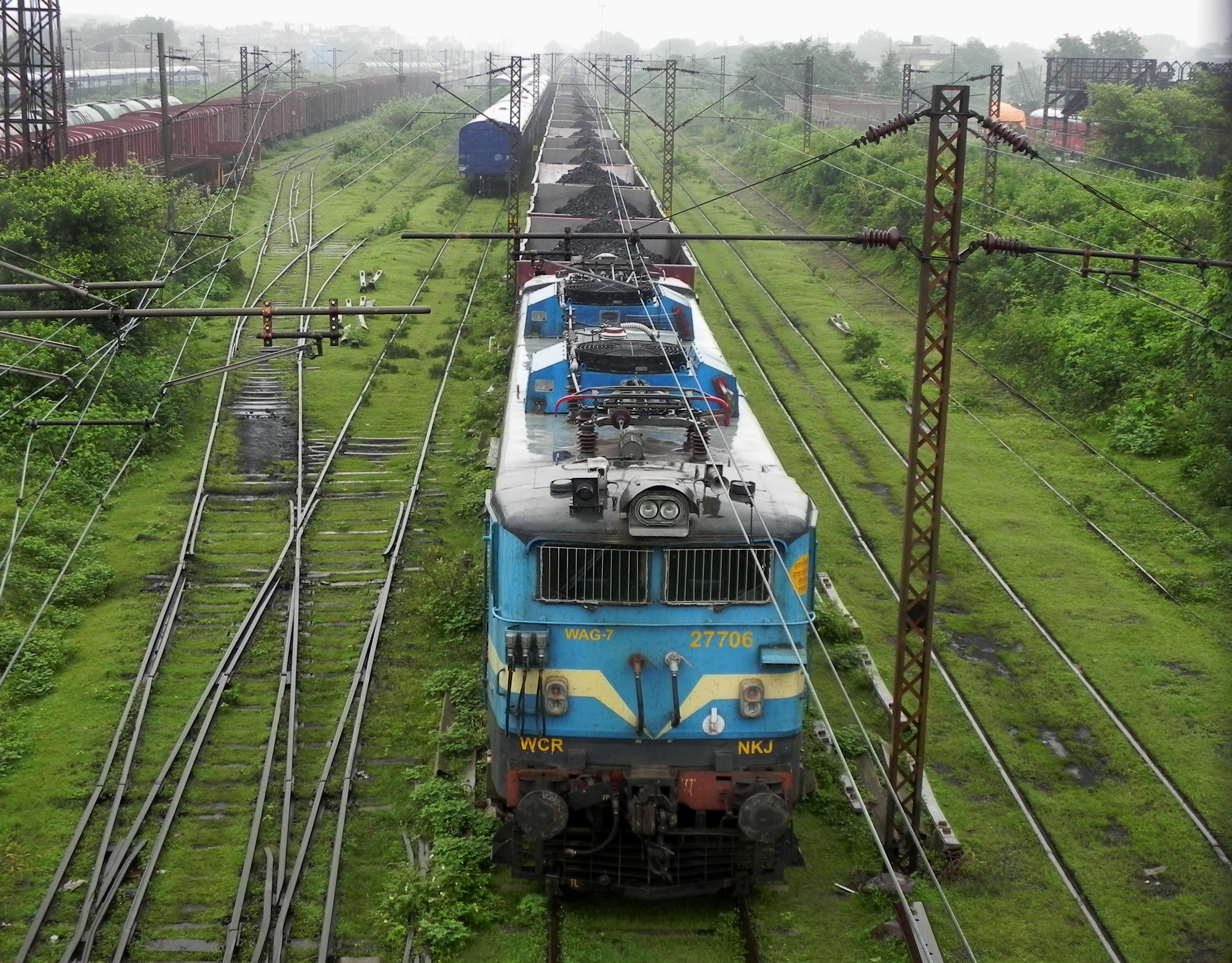 NKJ based WAG-7 loco - 27706 is spotted in dead mode on a green carpet of Dhanbad (DHN) yard being coupled to a BOB rake !!